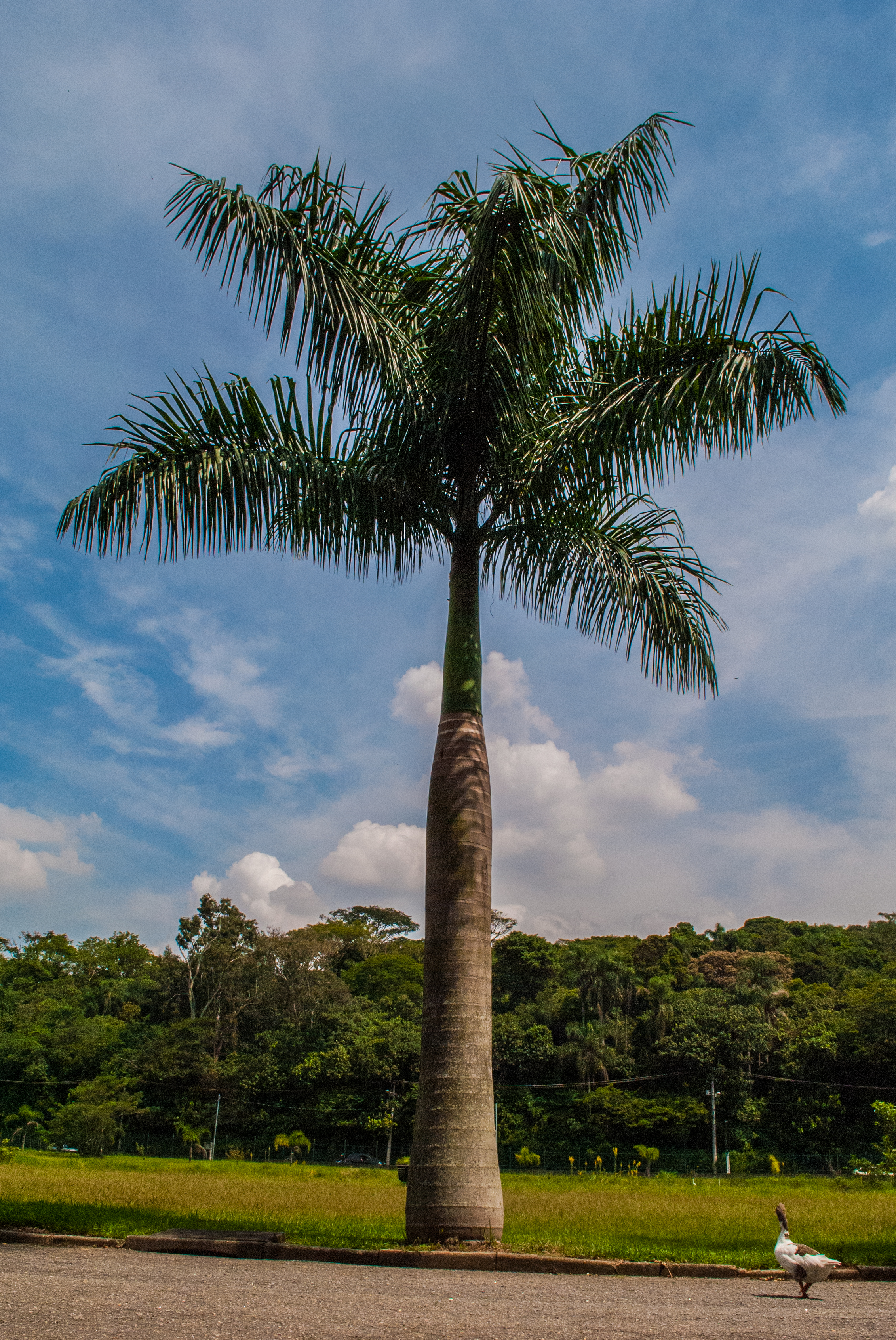 A duck walking next to a palm tree on the path that connects the entrance to the Botanical Garden of SP with input from the Institute of Botany of the USP.